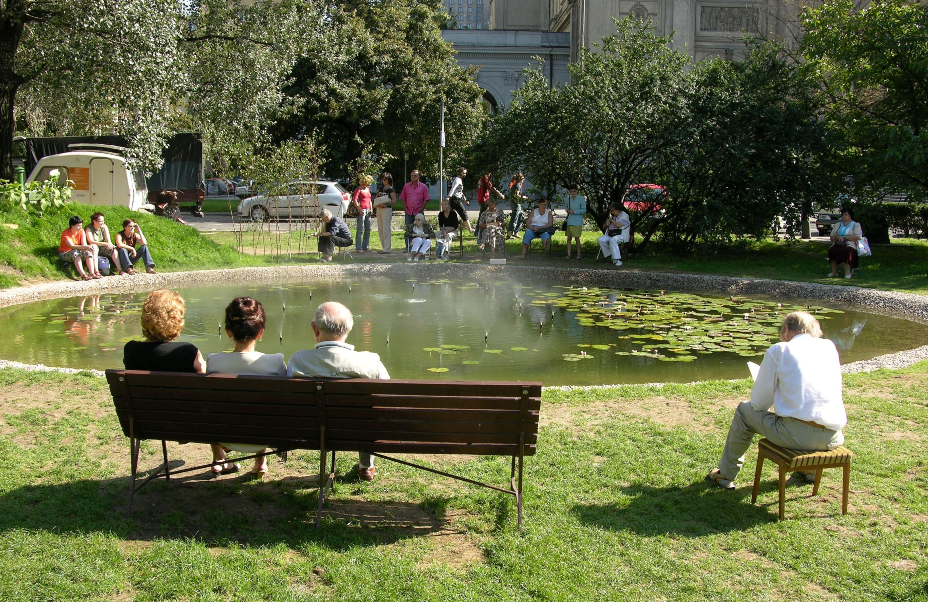 Oxygenerator in Grzybowski Square in Warsaw